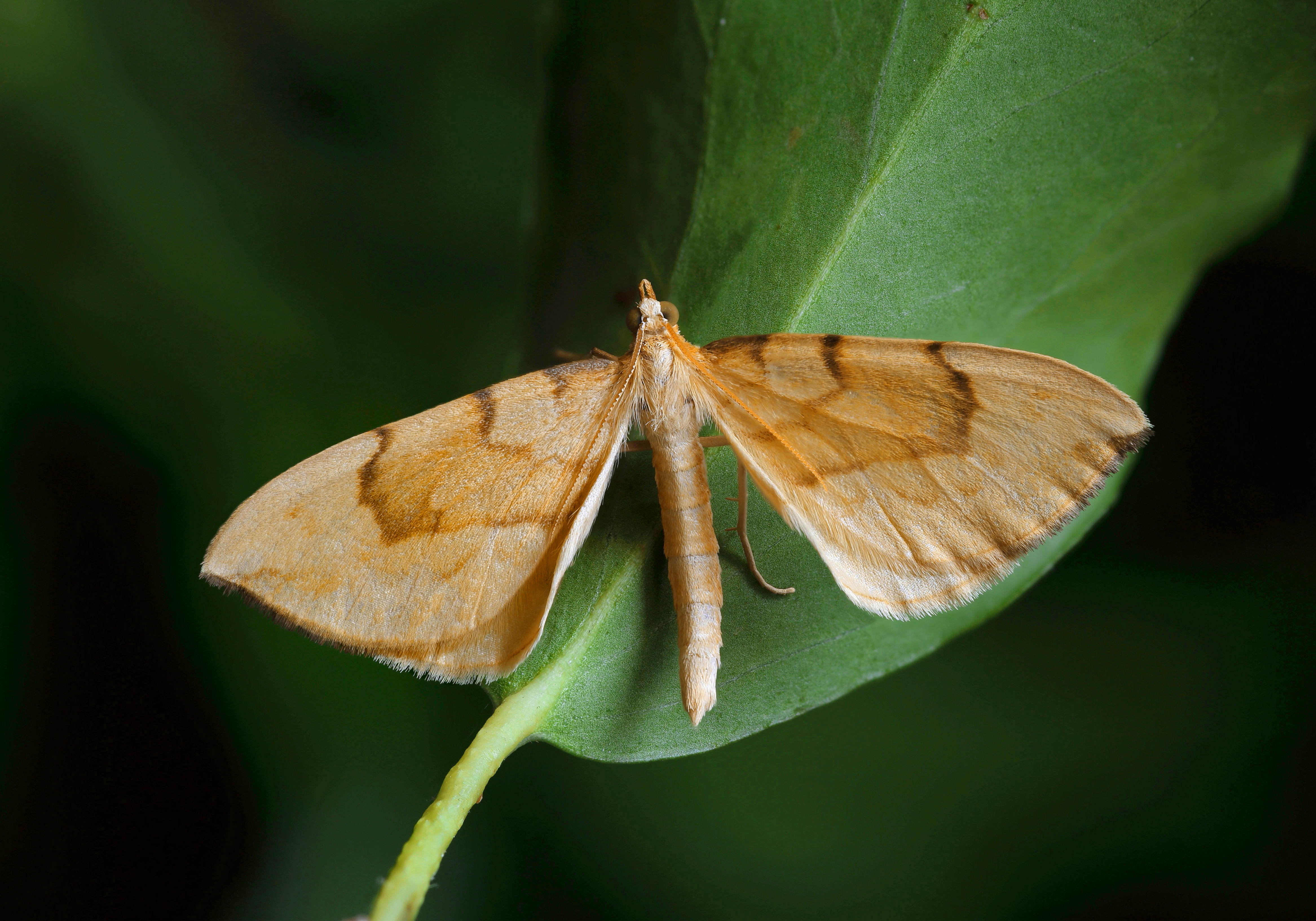 Barred Straw, Gandaritis pyraliata